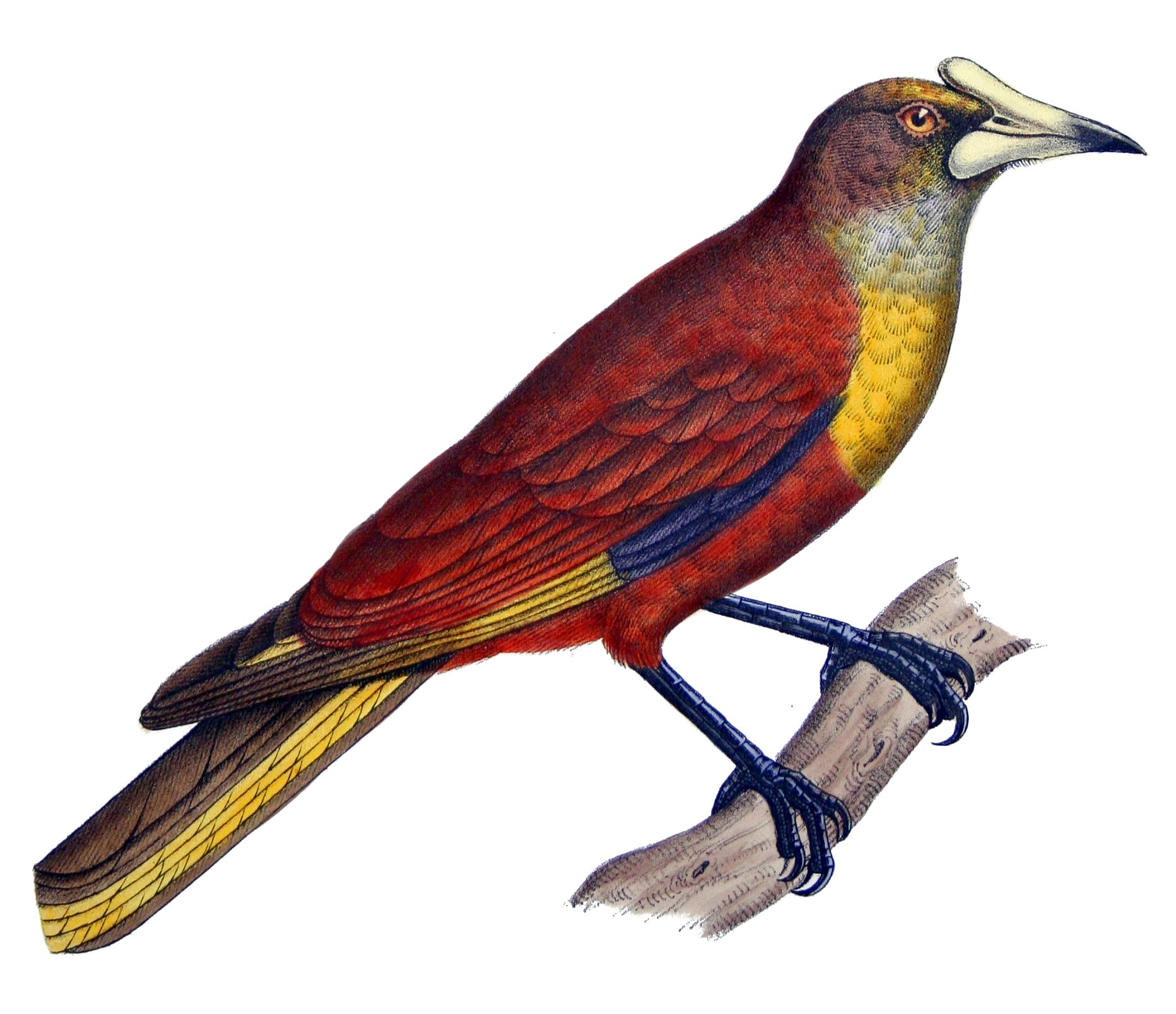 Cassicus oseryi Dev. = Clypicterus oseryi / Ocyalus oseryi (Deville, 1849)